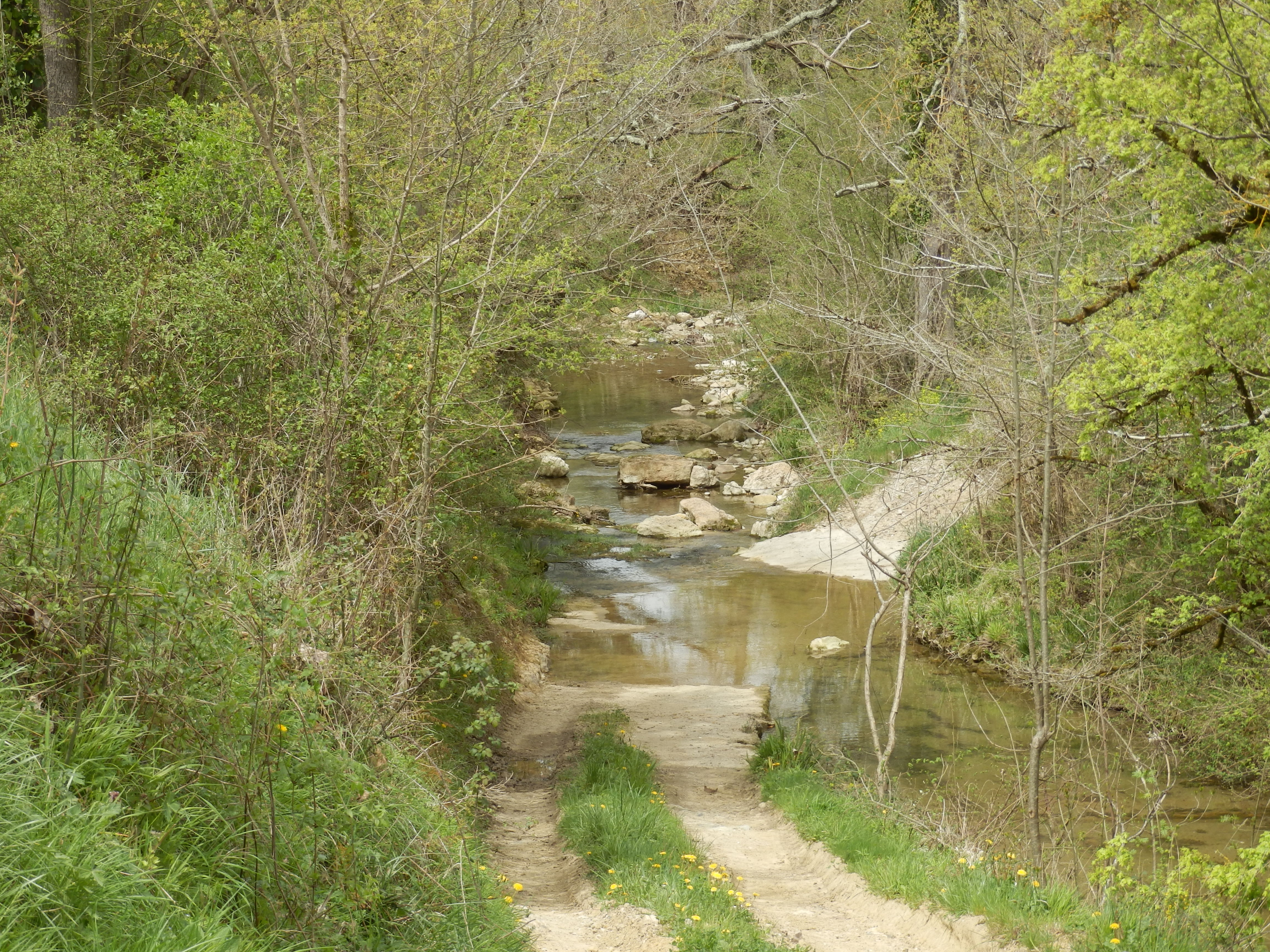 Ambronne river in Saint-Benoît, Aude, France